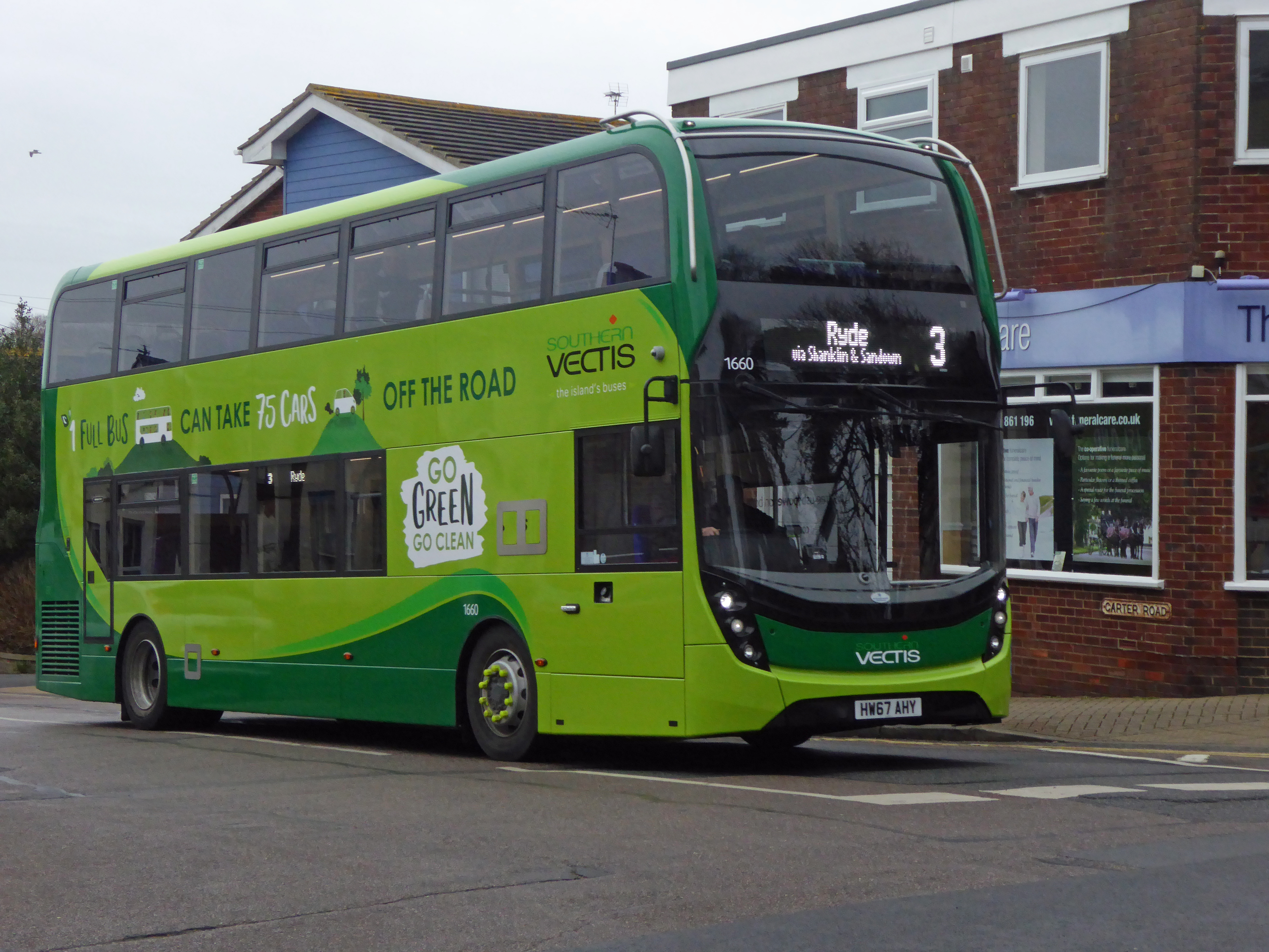 Southern Vectis ADL Enviro MMC 1660 HW67AHY at Shanklin, Isle of Wight operating route 3 to Ryde